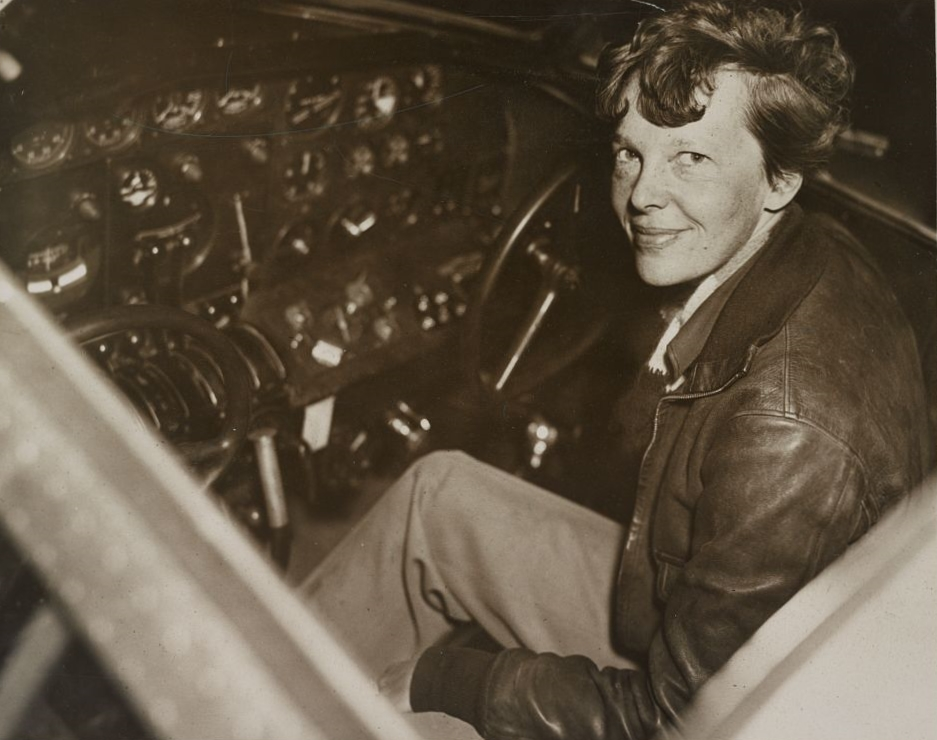 Photograph showing Amelia Earhart sitting in the cockpit of an Electra airplane.